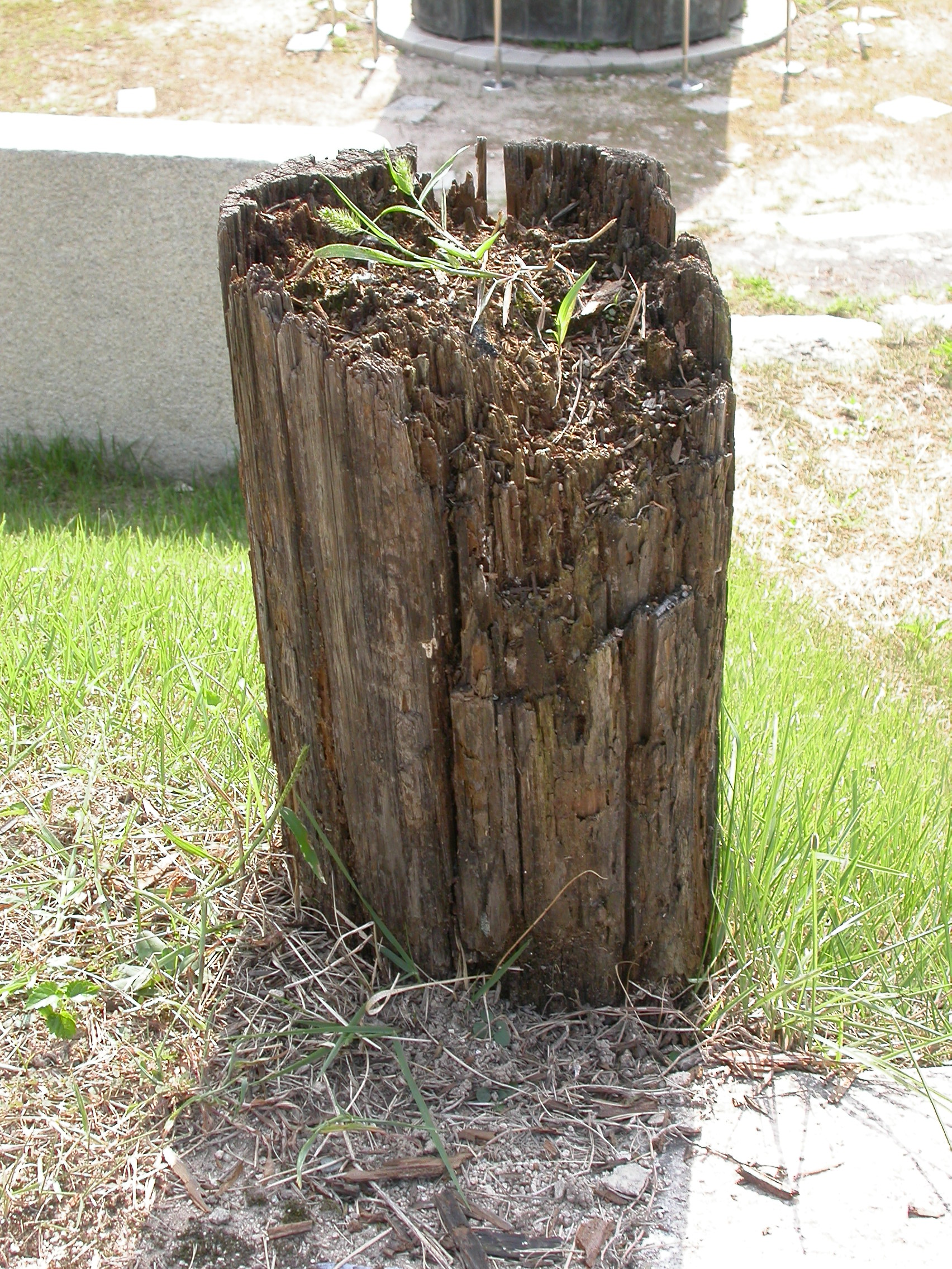 Exhibition of Japanese Government-General Building Remains